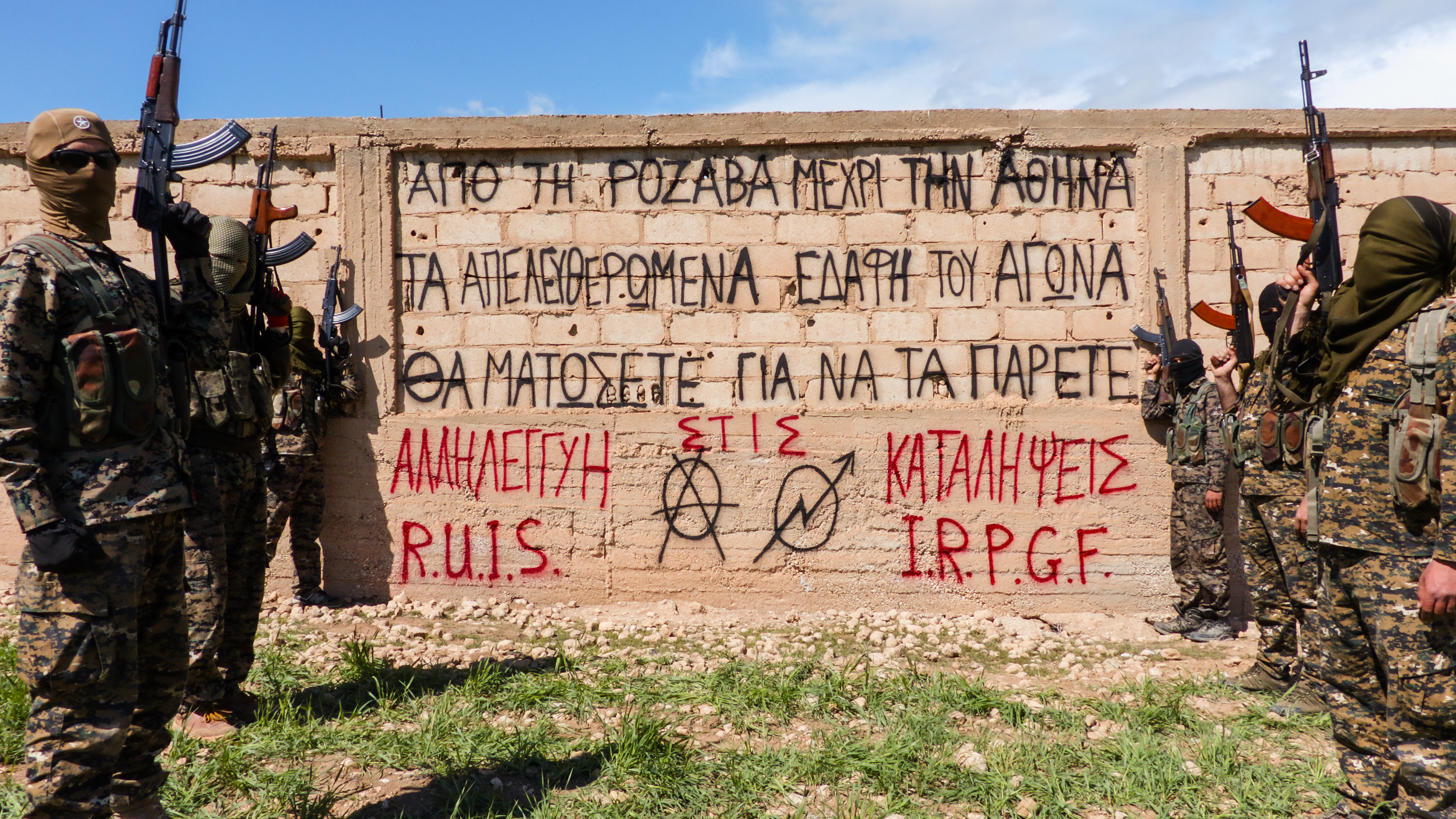 R.U.I.S. (Revolutionary Union for Internationalist Solidarity) / ΕΣΔΑ (Επαναστατικός Σύνδεσμος Διεθνιστικής Αλληλεγγύης) members at Rojava, northern Syria, along with I.R.P.G.F.. Writing on the wall (gr) ΑΠΟ ΤΗ ΡΟΖΑΒΑ ΜΕΧΡΙ ΤΗΝ ΑΘΗΝΑ ΤΑ ΑΠΕΛΕΥΘΕΡΩΜΕΝΑ ΕΔΑΦΗ ΤΟΥ ΑΓΩΝΑ ΘΑ ΜΑΤΩΣΕΤΕ ΓΙΑ ΝΑ ΤΑ ΠΑΡΕΤΕ ΑΛΛΗΛΕΓΓΥΗ ΣΤΙΣ ΚΑΤΑΛΗΨΕΙΣ R.U.I.S. (A) I.R.P.G.F. Writing on the wall (en) From Rojava all the way to Athens You will have to bleed to capture the liberated ground of the struggle Solidarity to the squats R.U.I.S. (A) I.R.P.G.F. Publication date based on